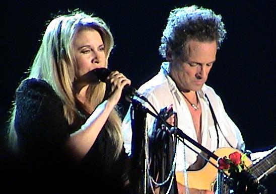 Stevie en Lindsey ( Oberhausen 2003) - eigendom Bumperke.